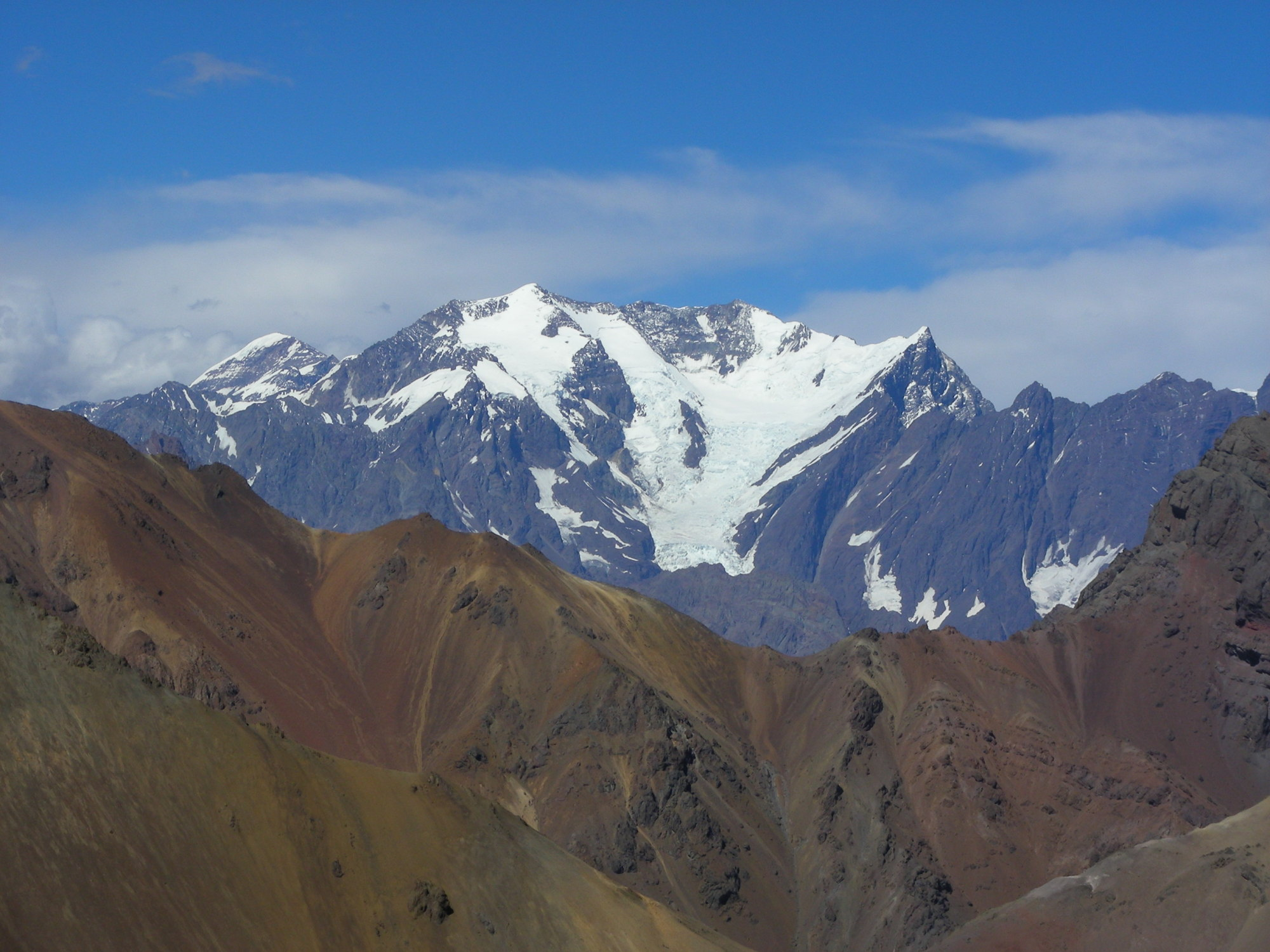 Le Juncal seen from Col des Libérateurs (Chile/Argentine), to the south.